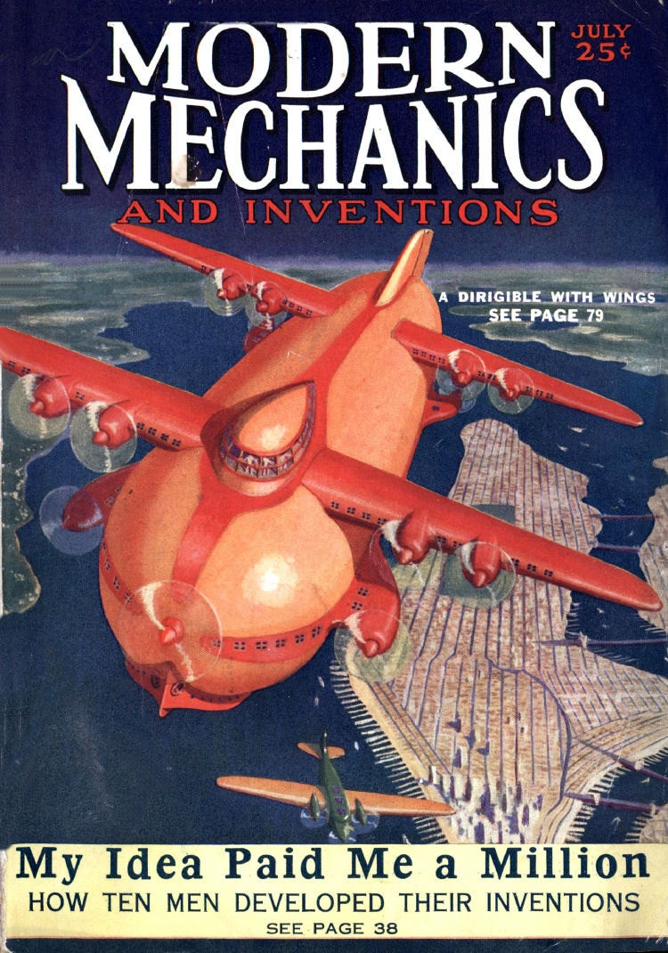 Modern Mechanics and Inventions July 1929 cover. Defunct magazine of the United States